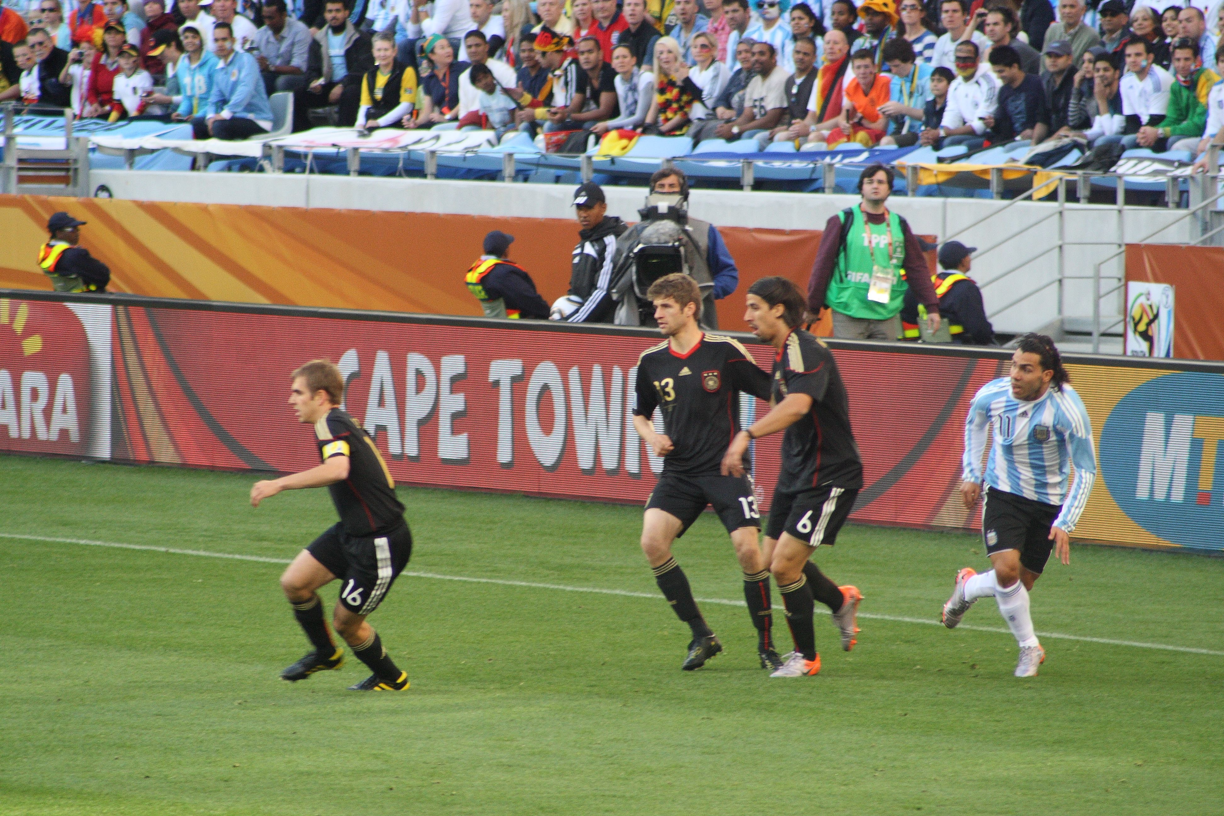 Carlos Tevez, Sami Khedira, Thomas Müller and Philipp Lahm